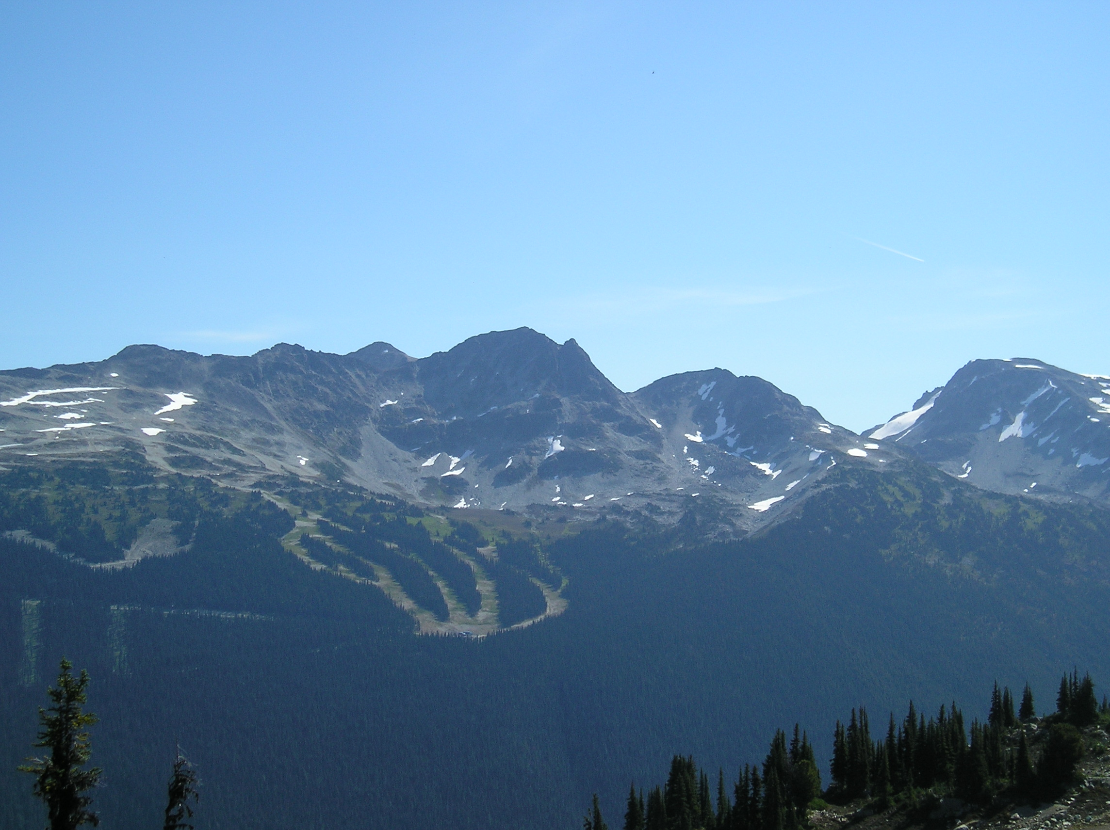 Blackcomb Mountain with 7th Heaven. (Whistler, British Columbia, Canada).